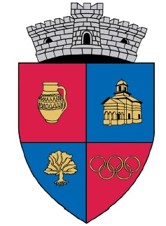 Coat of arms of Ciolpani commune, Ilfov County, RomaniaRomână: Stema comunei Ciolpani, județul Ilfov, România